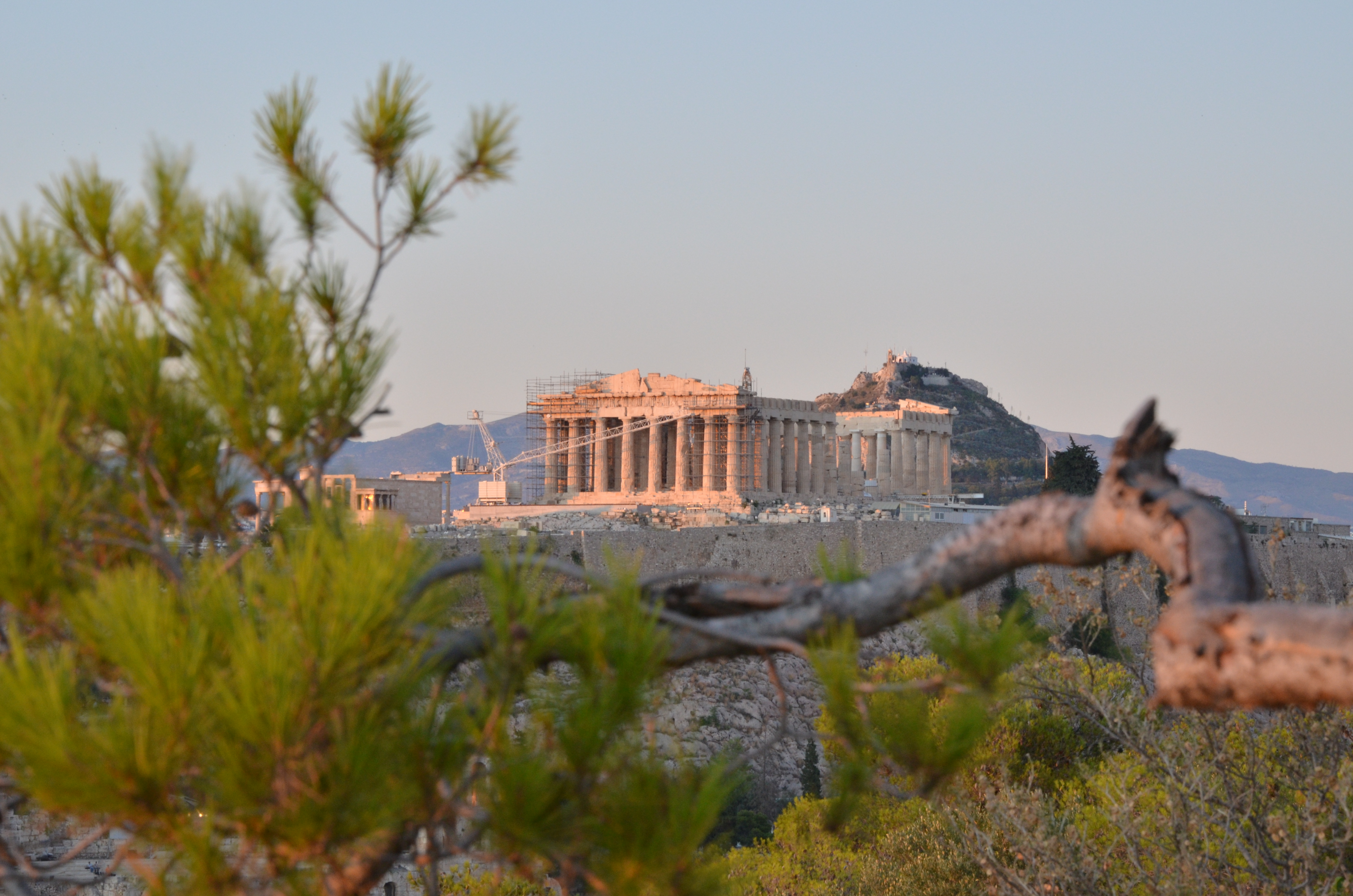 Filopappos hill - Acropolis view - still beautiful with the cranes on